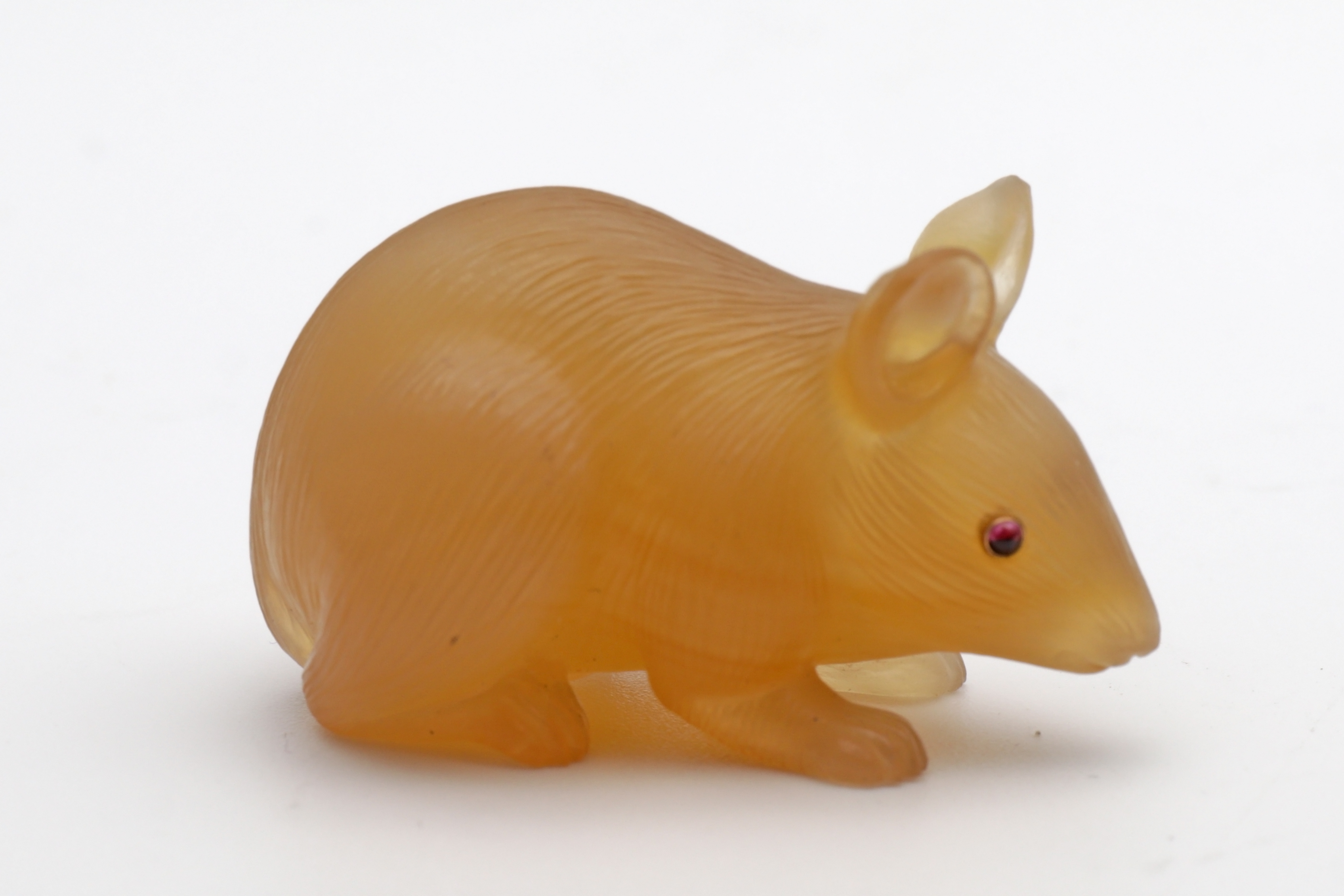 Chalcedony mouse cased by Sumin, St Petersburg, circa 1905. The mouse has textured fur and gold set circular cabochon ruby eyes, in the original fitted birch wood case, the silk interior with retailer`s stamp for Sumin, St Petersburg